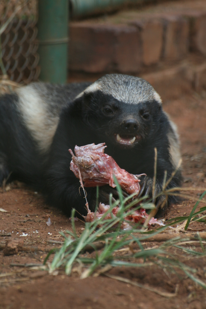 Honey Badger. Honey Badger, De Wildt Cheetah and Wildlife Sanctuary, Bojanala, South Africa.